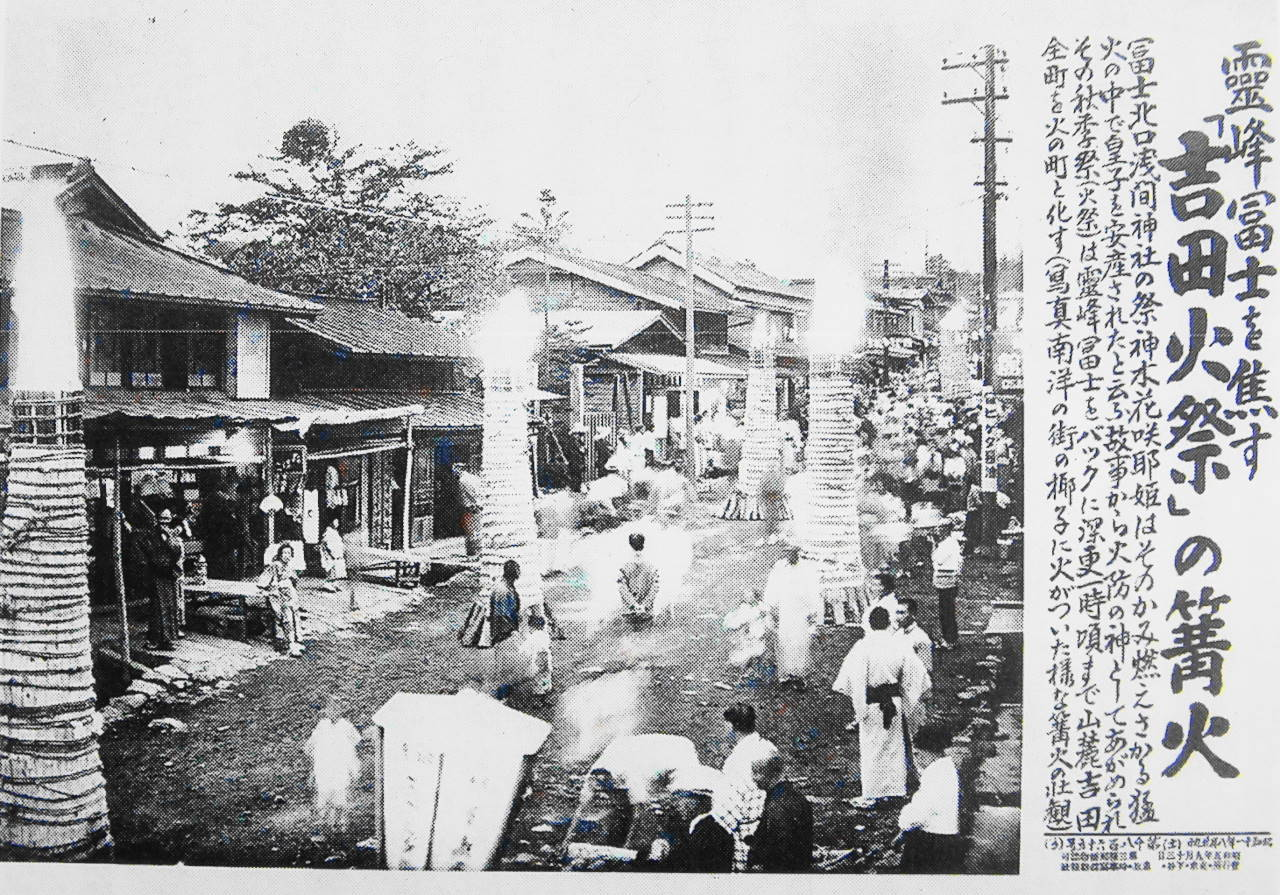 Yoshida Fire Festival Around 1935